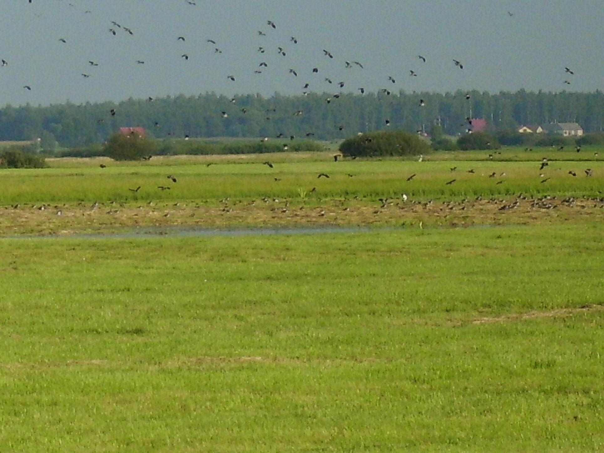 The lapwings on the Chruściel marsh (Poland)